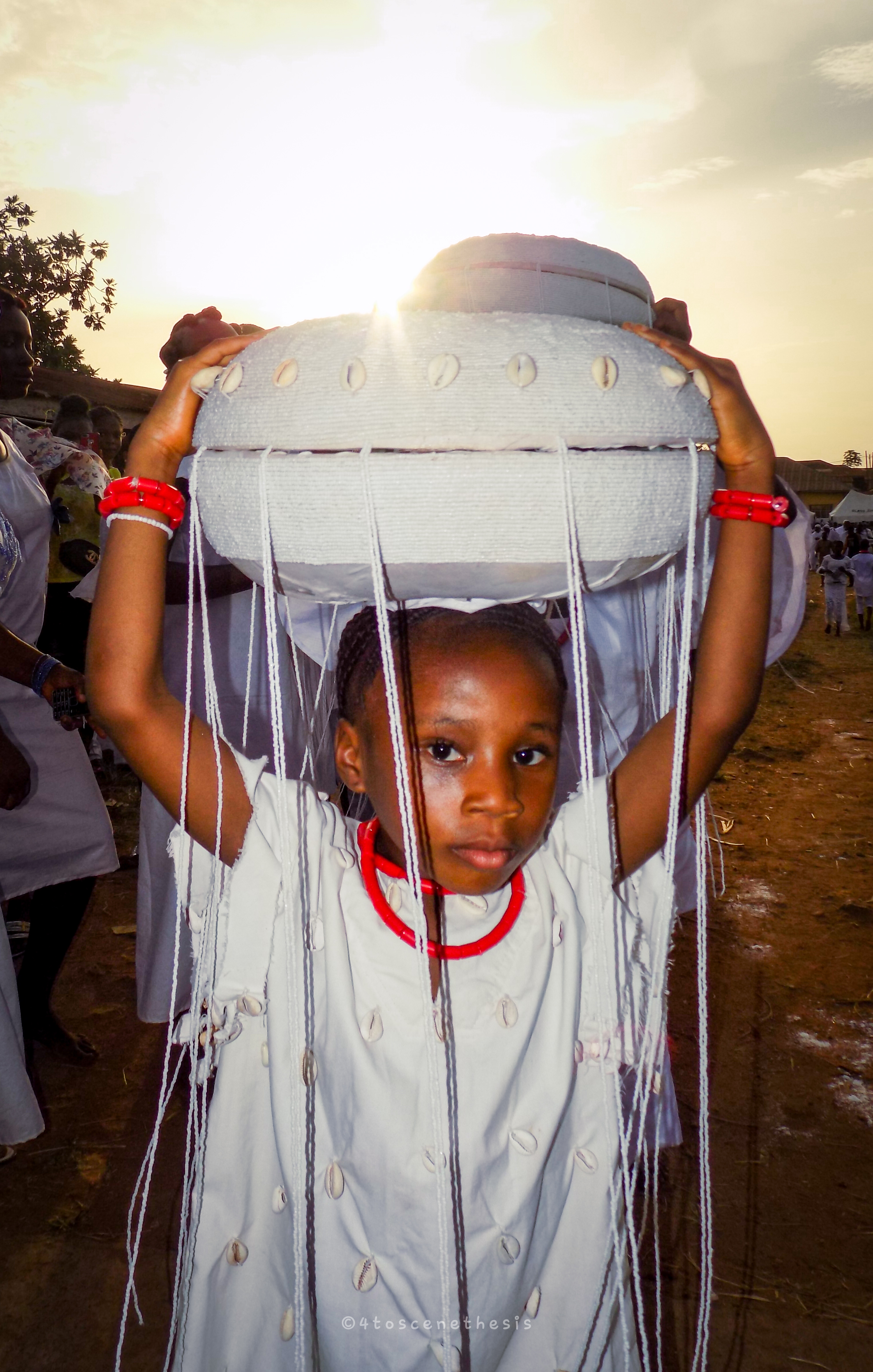 This is a photograph of an Arugbà for Olokun, she divinely selected to carry the gourd of offerings or the sacred figurine of an orisa (deity). Most of the Orisas in the yoruba spiritual tradition have thier Arugba and young virgins are mostly chosen to carry this honorable responsibility. The most popular icon of this duty is the Arugba Osun, who is chosen to carry the gourd of sacrifice during the annual Osun/Osogbo Festival in Osogbo, Osun state Nigeria. This photo has been taken in the country: Nigeria